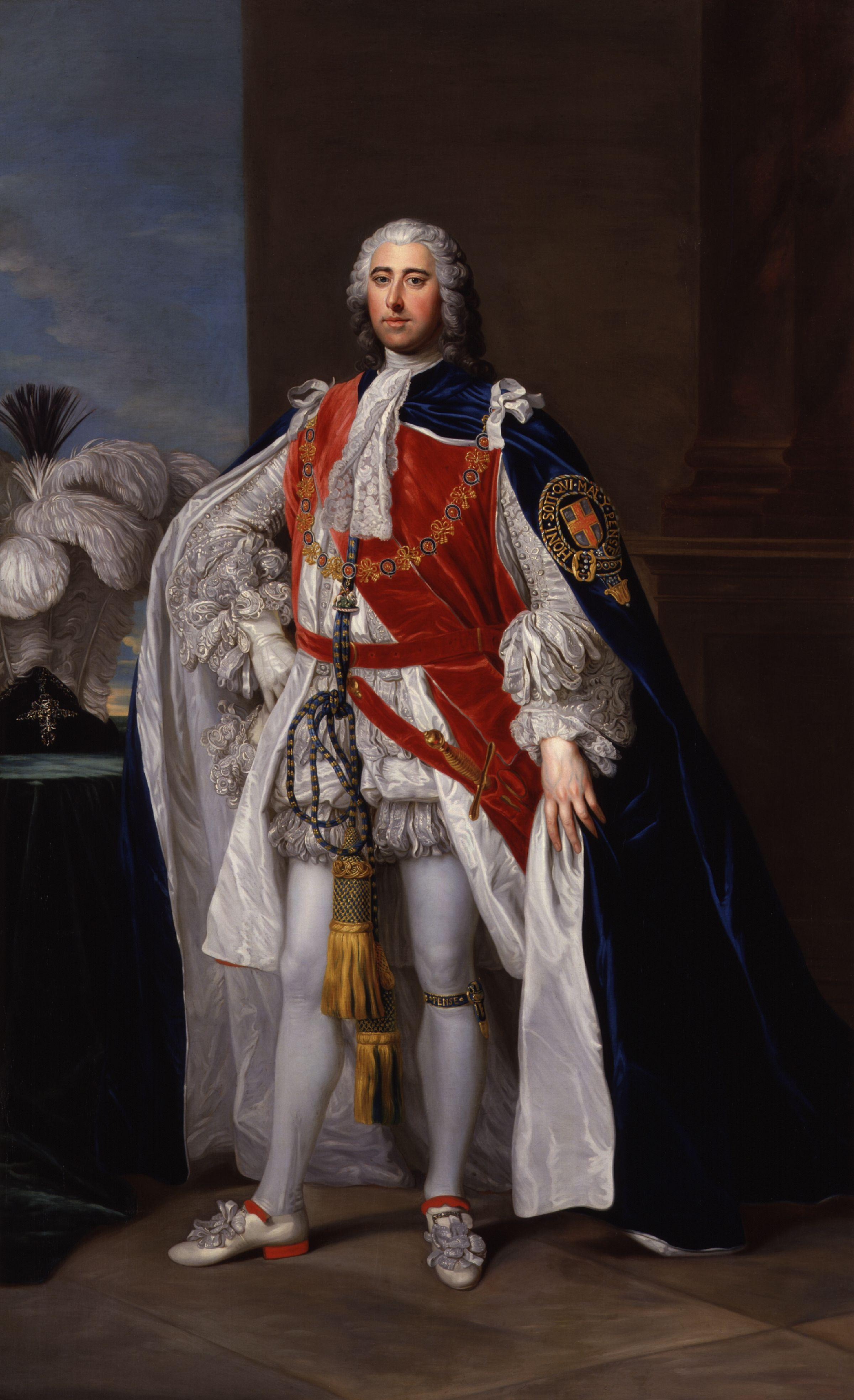 All images in this batch have been confirmed as author died before 1939 according to the official death date listed by the NPG.